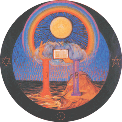 Eliphas Levi, in his Dogme et Rituel de la Haute Magie (p 364 / p 399 in the English translation as Transcendental Magic), represents the seven seals together, effectively 'sealing' the whole content of the Apocalypse (Greek for 'Revelation'). Rudolf Steiner's diagrammatic seals representations, as painted by Clara Rettich in 1911, are probably the best known amongst but few. These, to be sure, are clearly based on Eliphas Levi's own renditions. Rudolf Steiner's Sketches for seven "Apocalyptic Seals," 1907, pastels (executed in oil on canvas by Clara Rettich in 1907 and in 1911; Steiner's sketches for the first, fifth, and sixth seals have not survived).